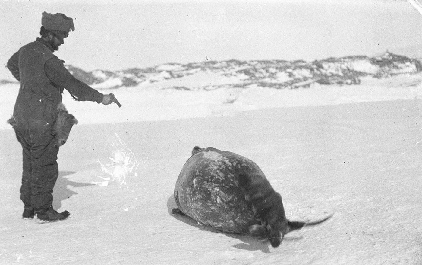 Leslie Whetter, surgeon at the Main Base during the Australasian Antarctic Expedition, shoots a Weddell seal.